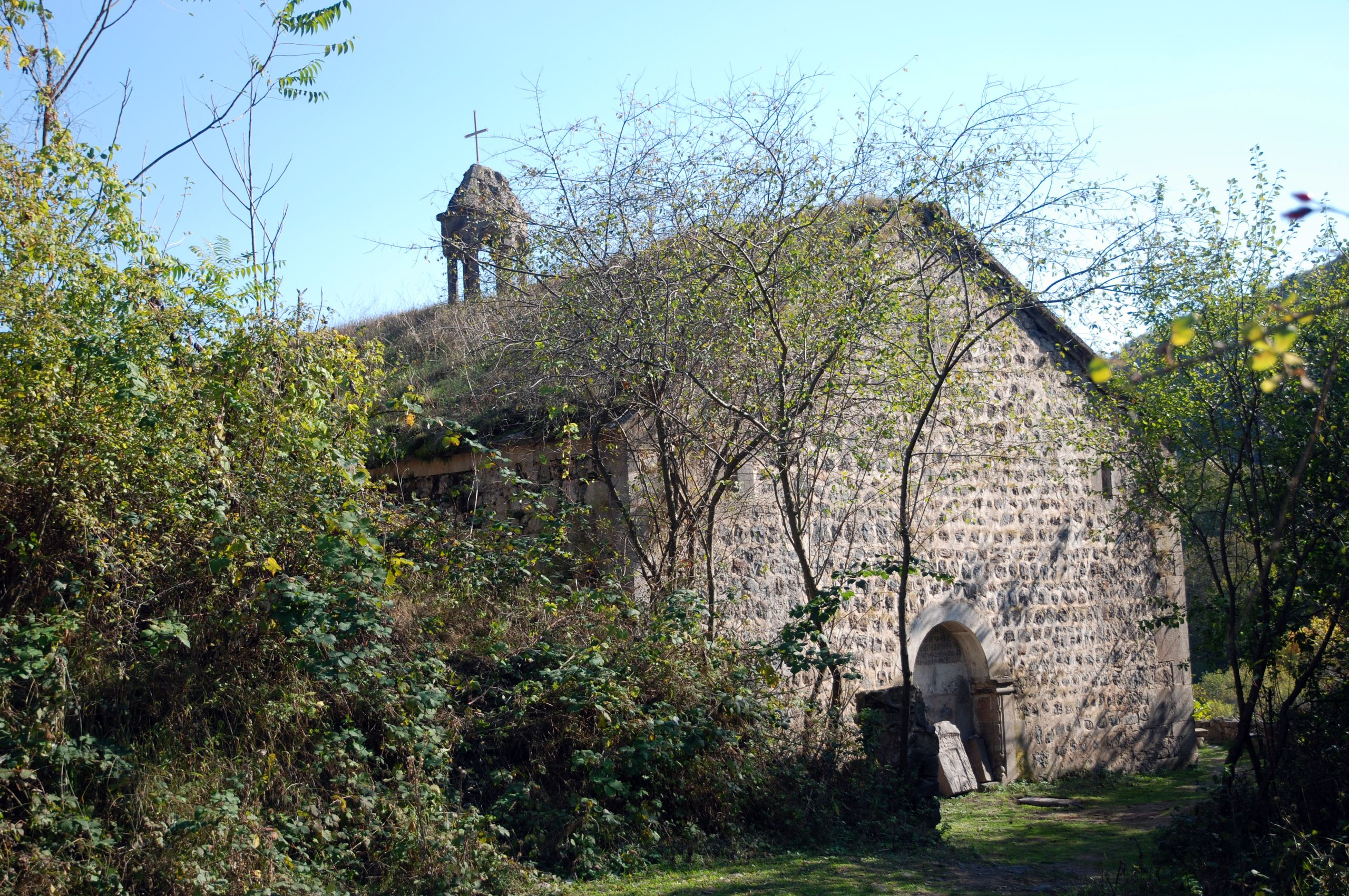 Khndzoresk, Hripsime church west